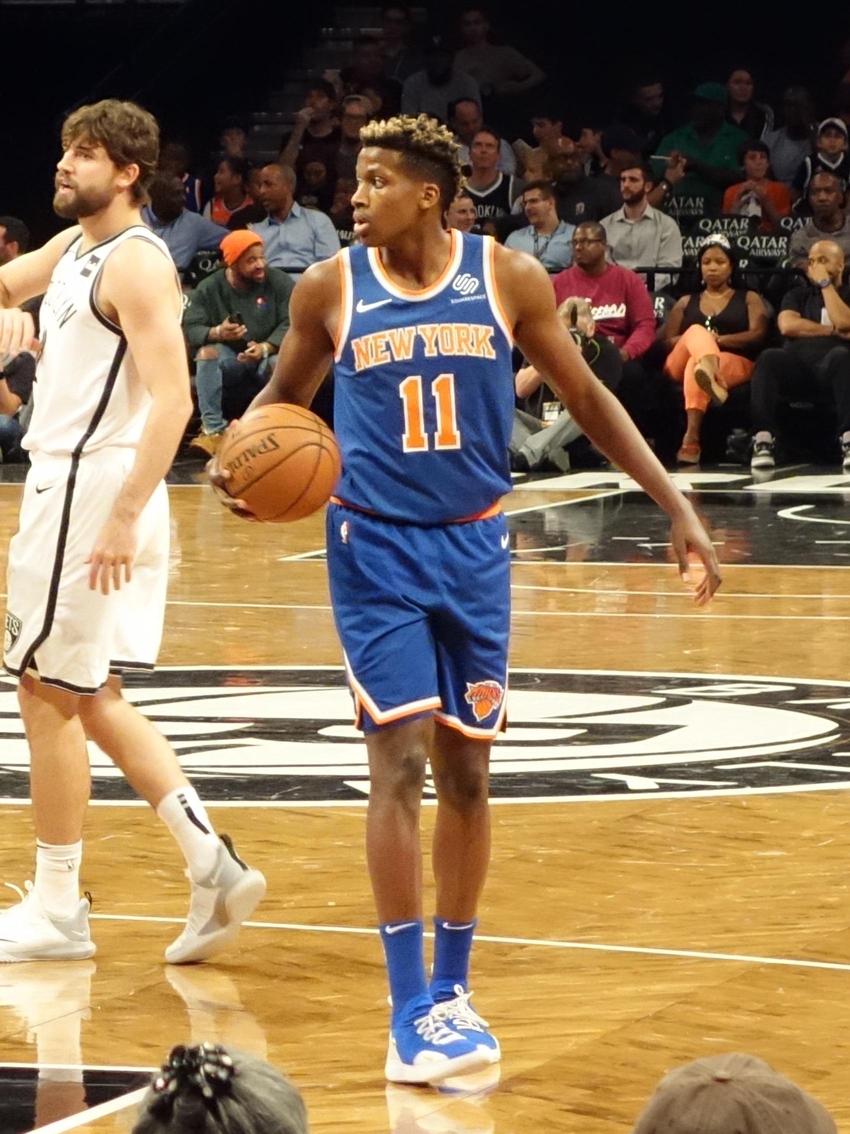 New York Knicks guard Frank Ntilikina during the first quarter of the NBA Preseason game between the Brooklyn Nets and the New York Knicks at the Barclays Center on October 3, 2018.